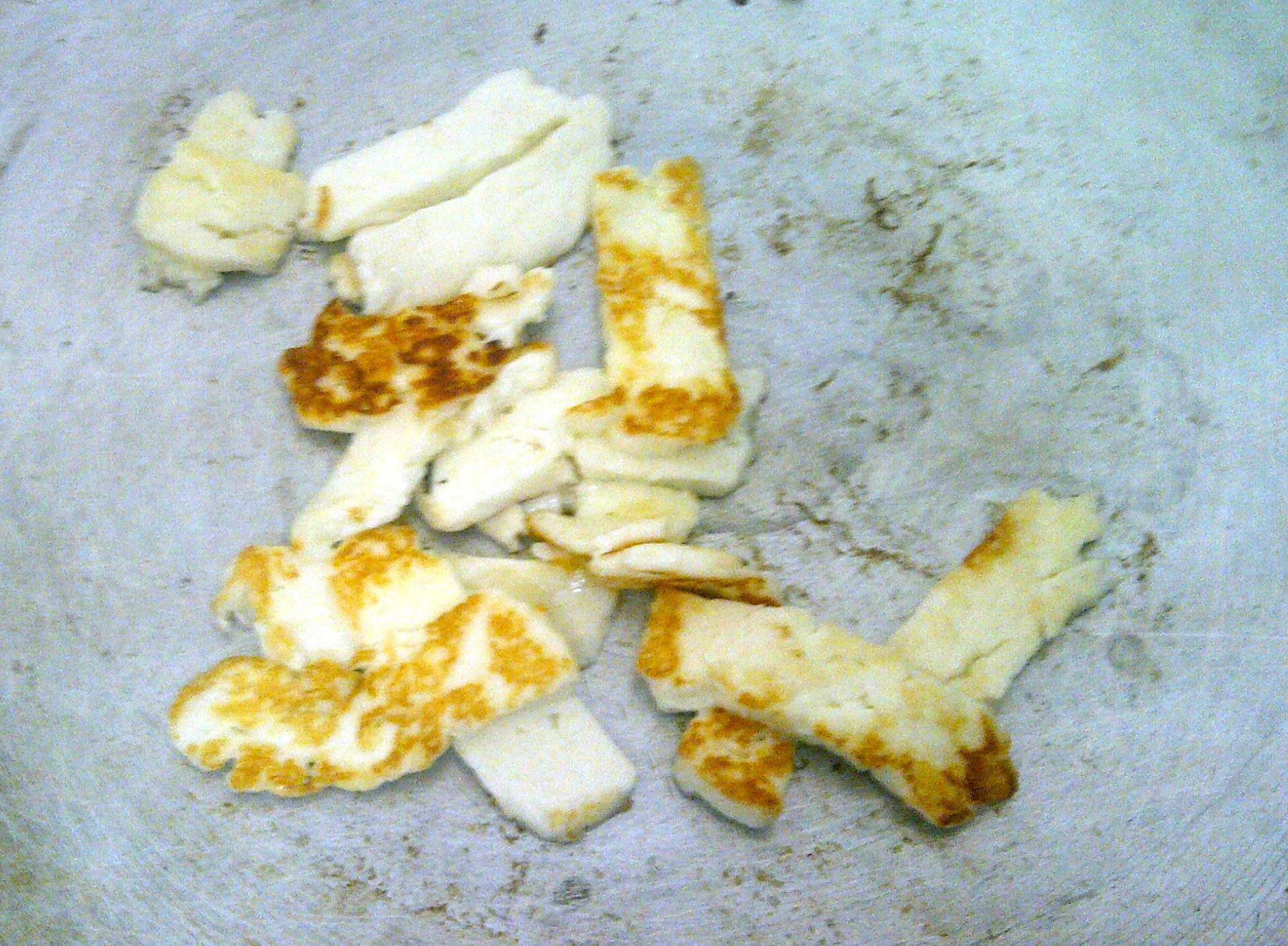 Halloumi-101